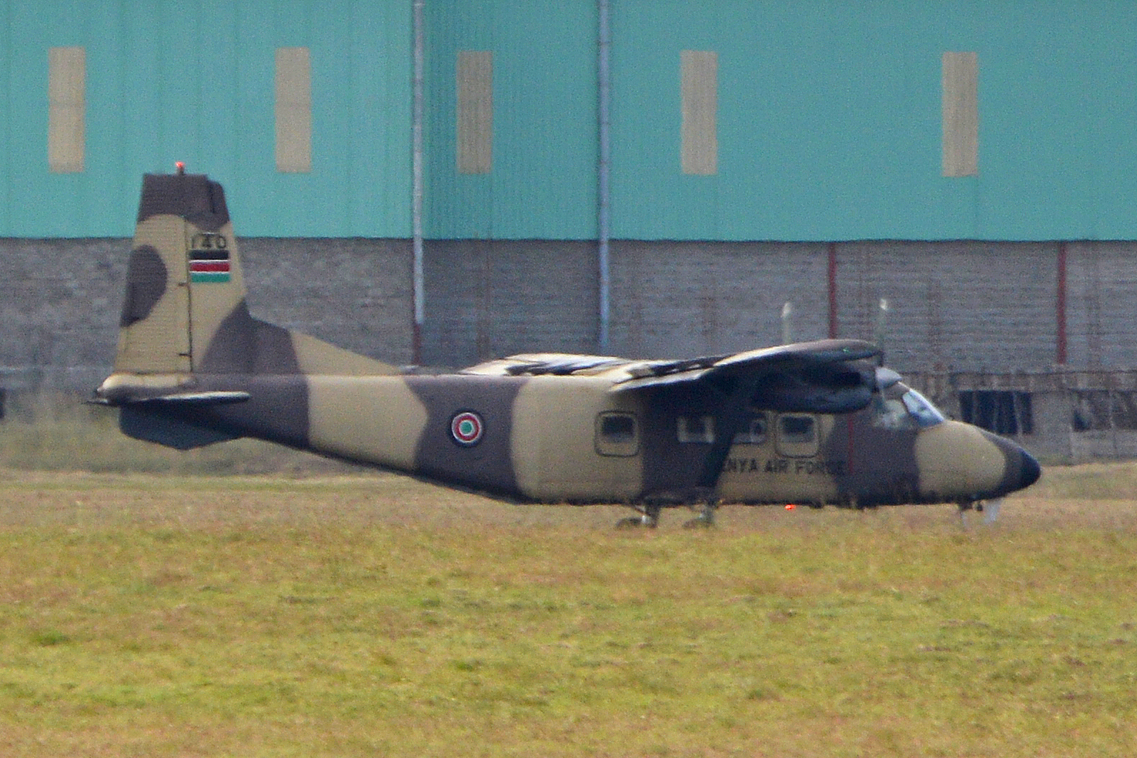 One of eleven Y-12s in Kenyan Air Force service as light transports. c/n decidedly unknown!! Seen landing at Nairobi's Jomo Kenyatta International Airport, Kenya. 26-9-2014 Taken at distance, through glass and at short notice, this isn't the best of shots, but it's the only Y-12 I've ever seen so I wasn't going to leave it out!